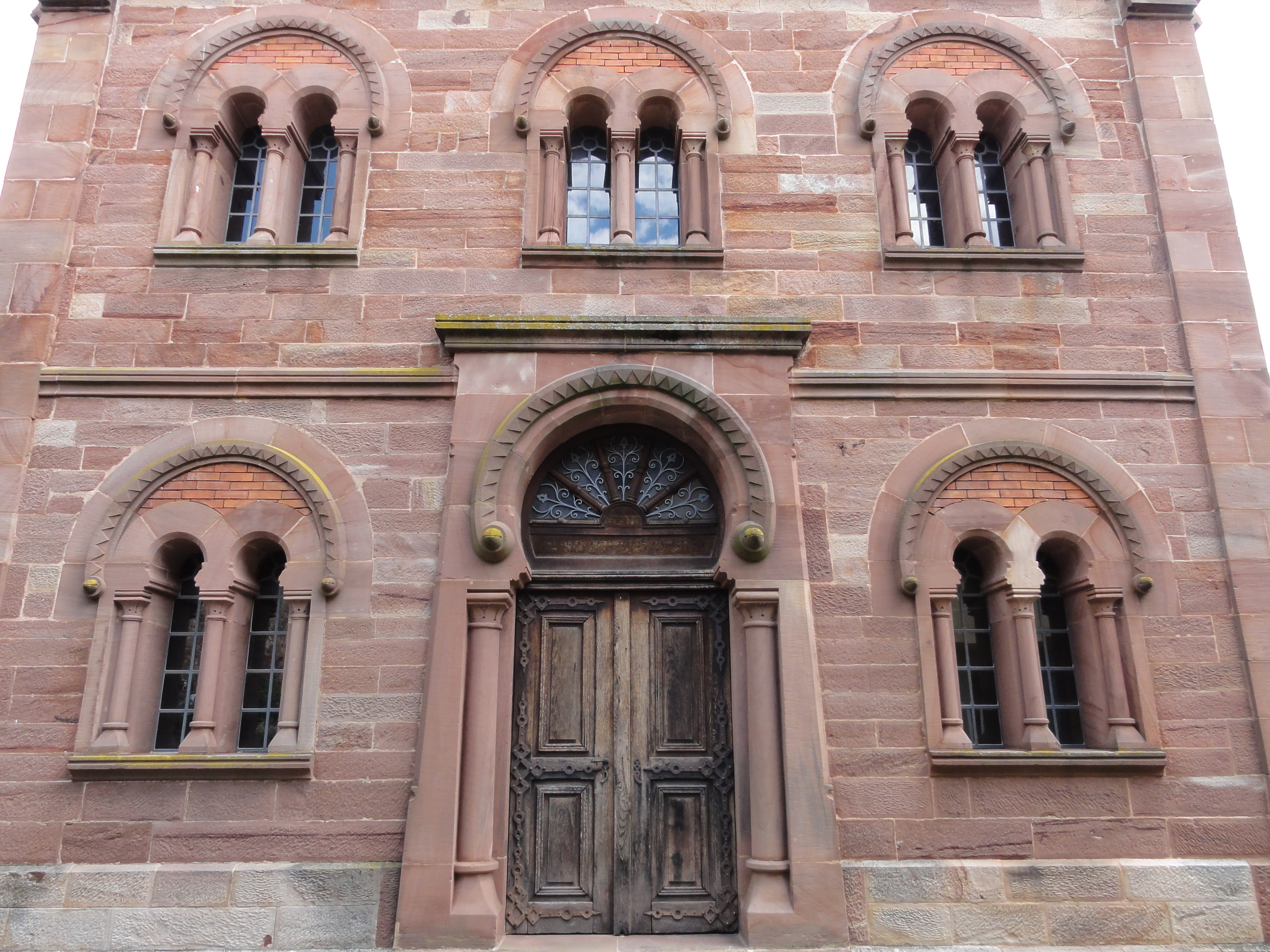 Alsace, Bas-Rhin, Westhoffen, Synagogue (1867-1868), place de la Synagogue. It is indexed in the Base Mérimée, a database of architectural heritage maintained by the French Ministry of Culture, under the references PA00085286 and IA67006261 .